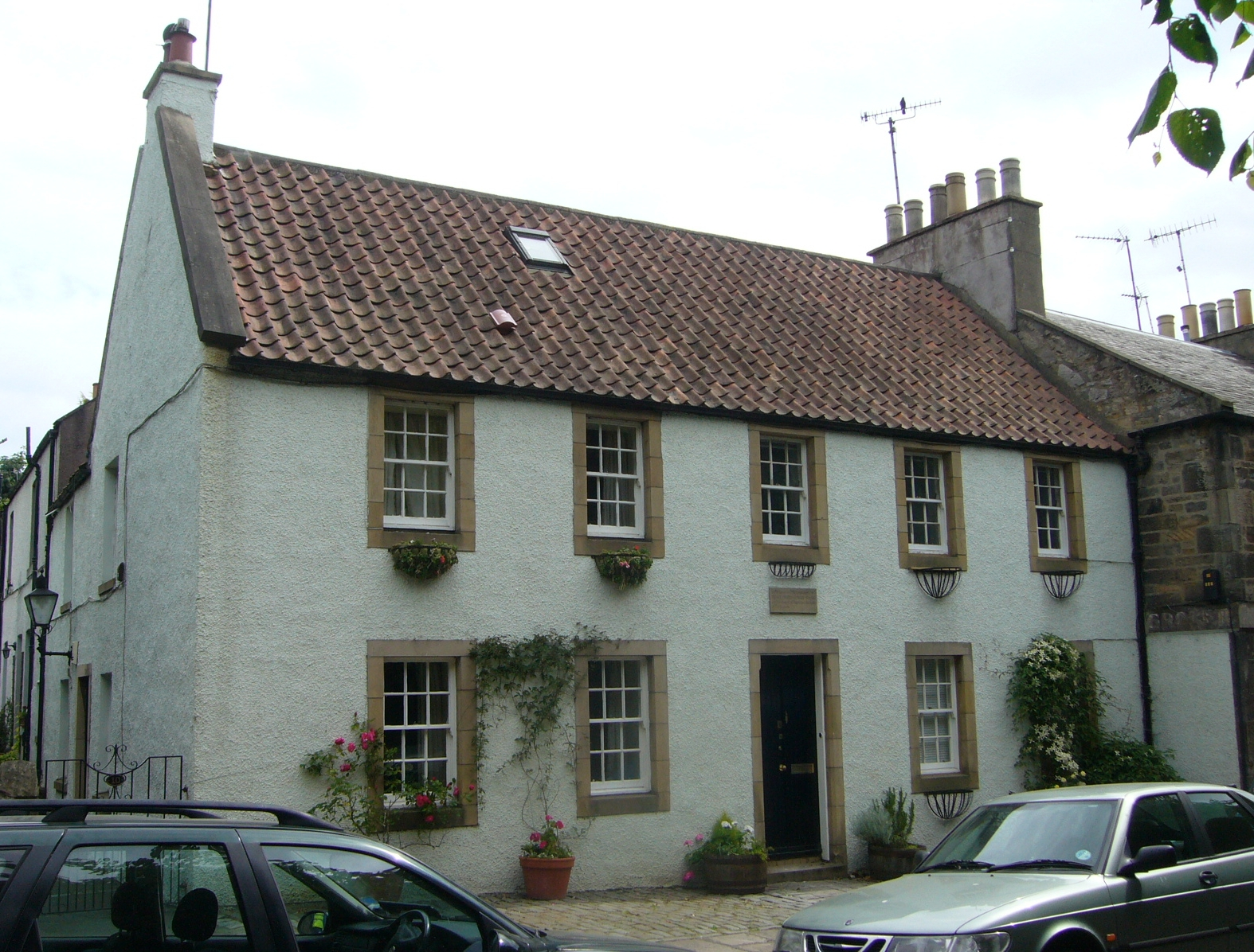 In September 1745, Bonnie Prince Charlie held his council of war before the Battle of Prestonpans in this house which was a tavern in Duddingston Village. The Jacobite horse were camped on open land to the south of the village, now called Cavalry Park.